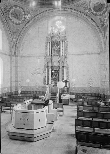 The former interior of the Hurva Synagogue, in the Old City of Jerusalem, between 1934 and 1939.